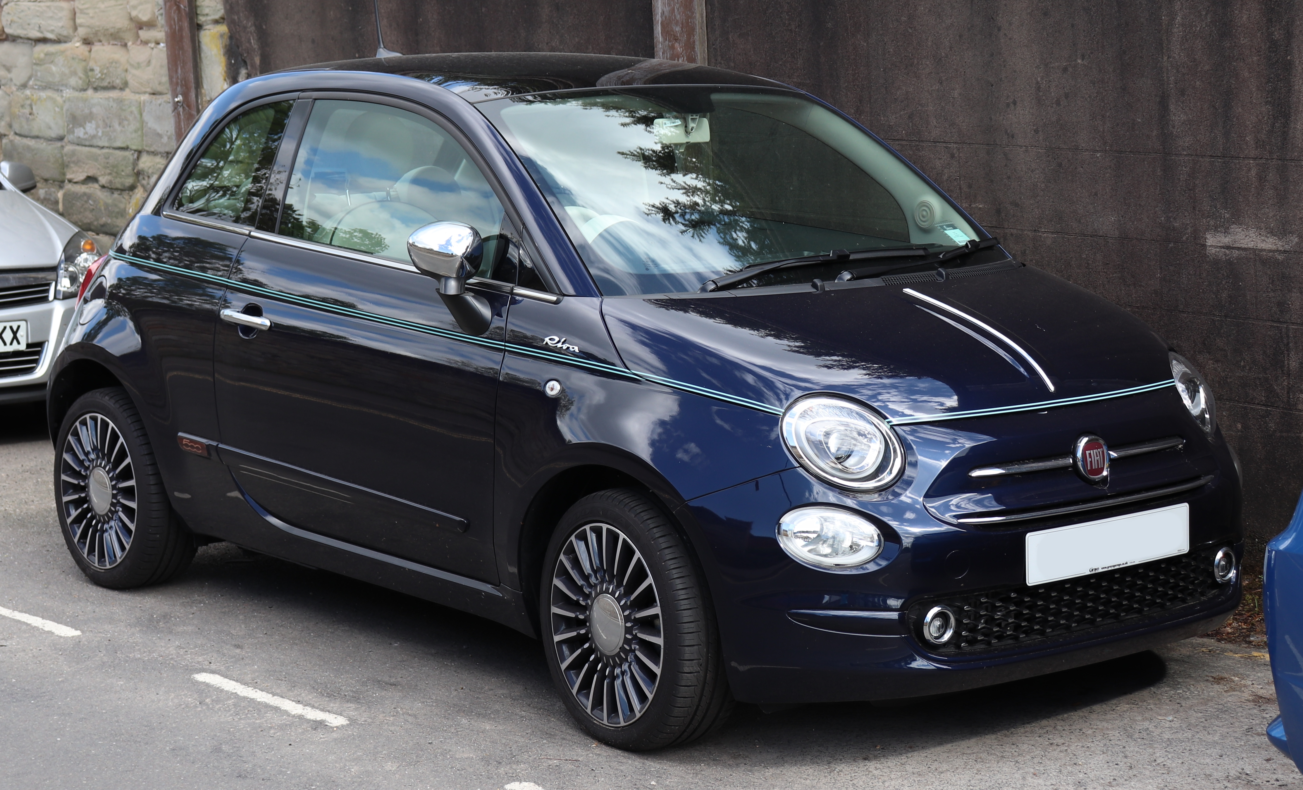 2017 Fiat 500 Riva TwinAir 875cc Front